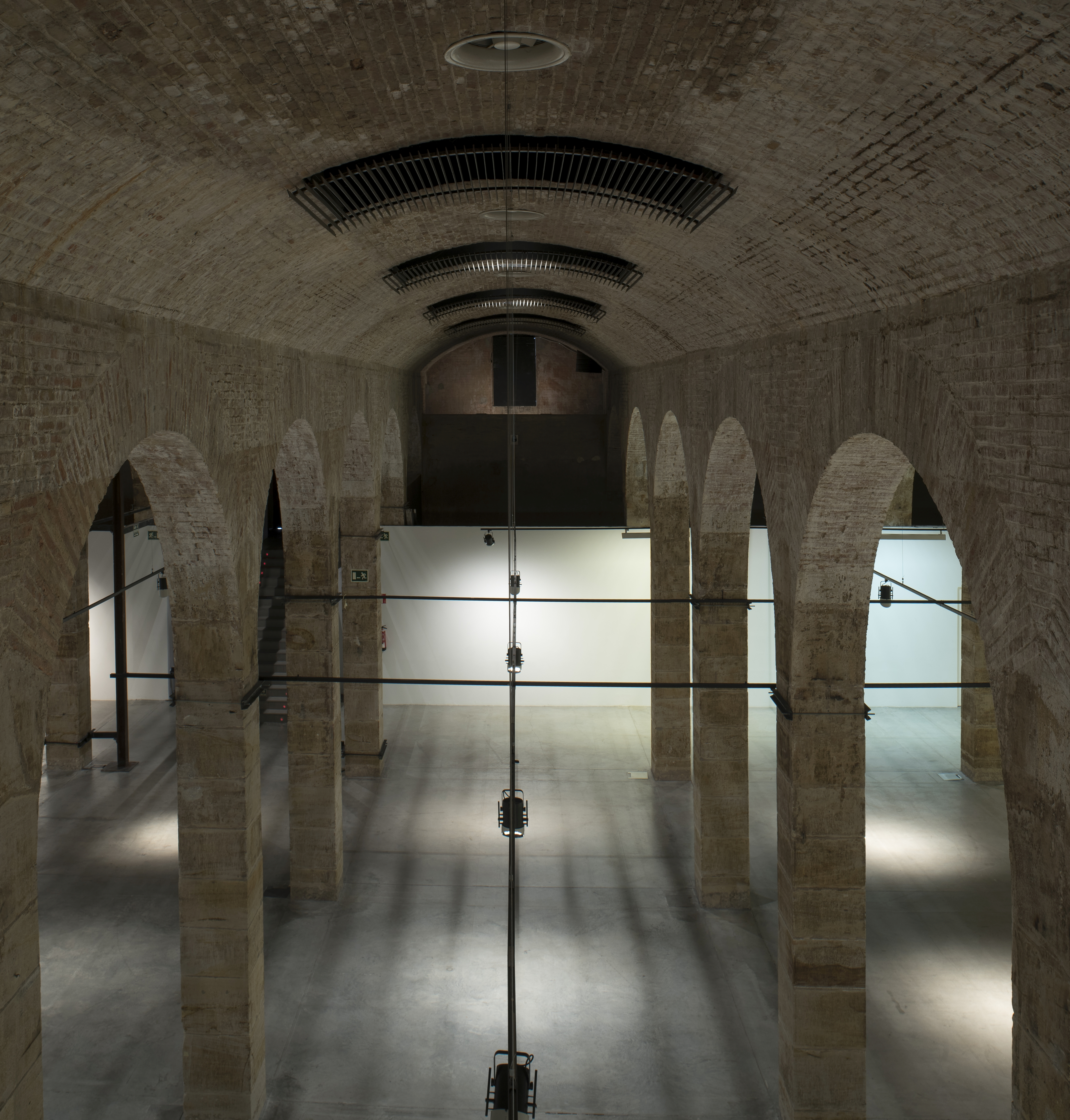 Antiguo Depósito de Aguas (Vitoria-Gasteiz, Pais Vasco)